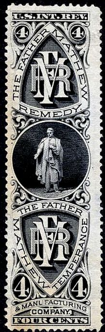 Image of Private die proprietary revenue stamp, 4c, 1878